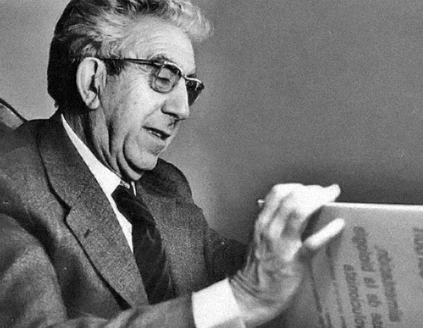 Cordón, reading the first part of his Evolutionary Treaty of Biology